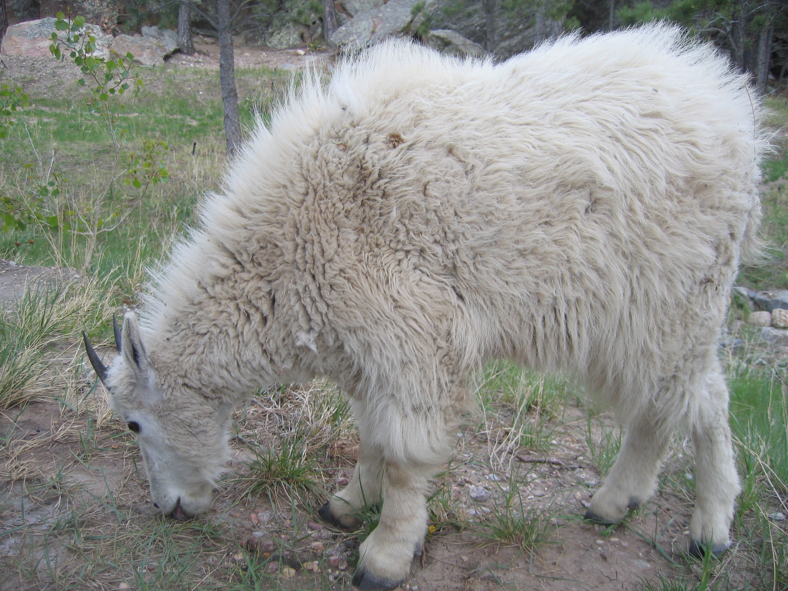 South Dakota, USA